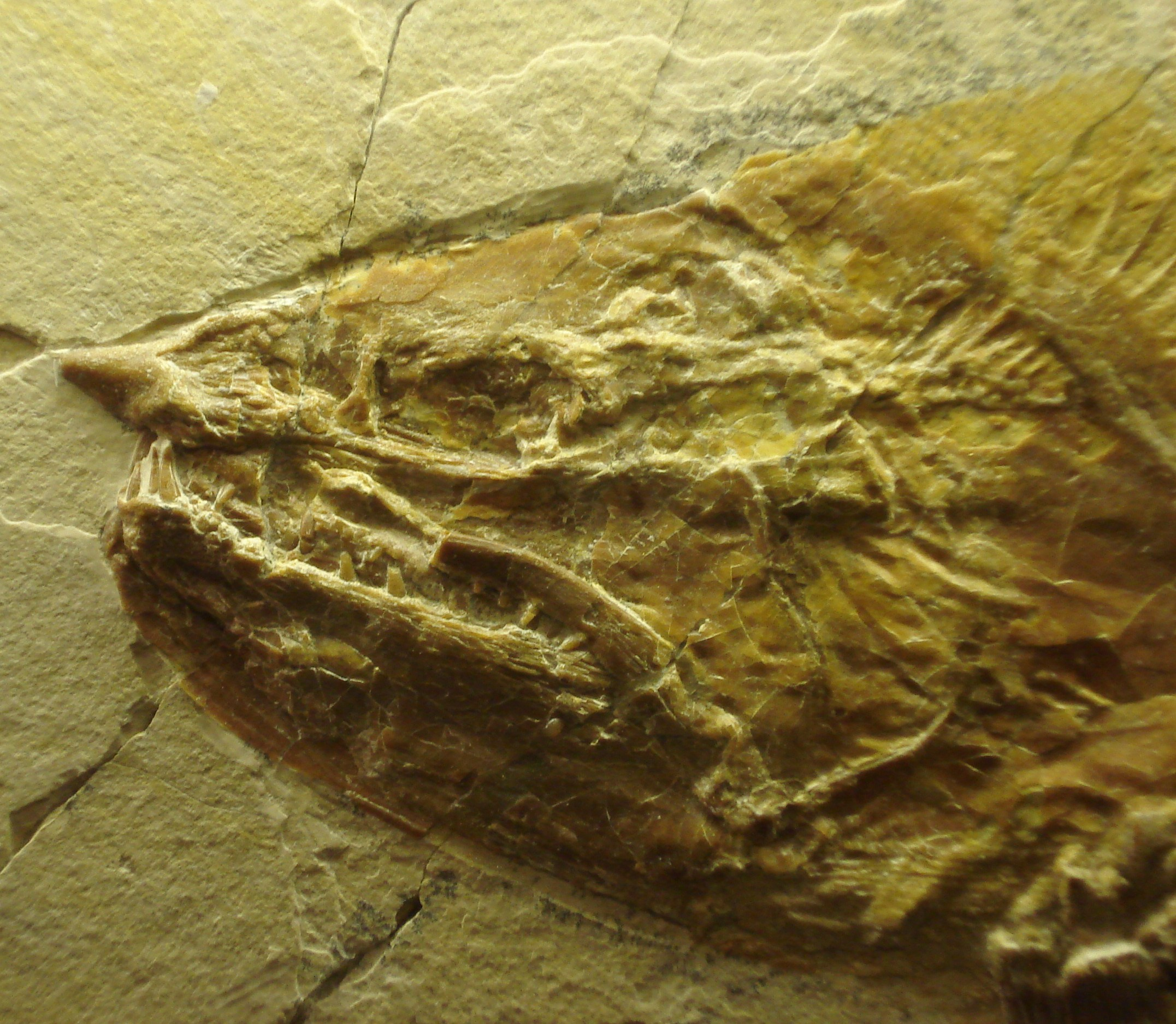 fossil of orthocormus